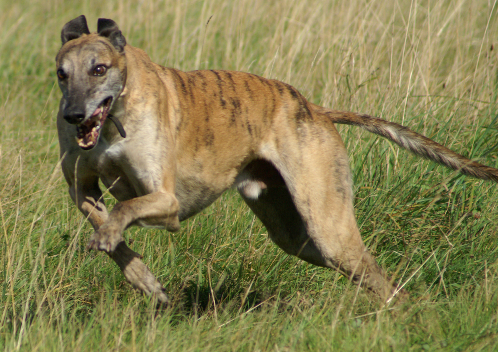 A male brindle-coloured Greyhound named Moby running.